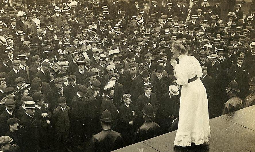 In 1908 women workers at the Corruganza box factory in Summerstown, Tooting, South London, went on strike over wage cuts. Mary Macarthur of the National Federation of Women Workers (NFWW) called a mass meeting in Tranfalgar Square to highlight the struggle. The dispute was settled in September 1908 with all wage reductions withdrawn, with one exception, and all workers who had gone on strike returned to work (except one who did not wish to return). Image appears in TUC archive with author listed as unknown. Searches via Google images turn up no known author.